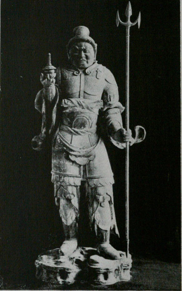 Tamon-ten one of the Four Heavenly Kings, Colored wood, 188.5 cm (74.2 in), late 8th century Kon-dō , Tōshōdai-ji, Nara, Japan